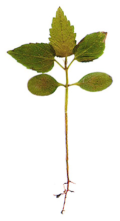 Broussonetia seedling